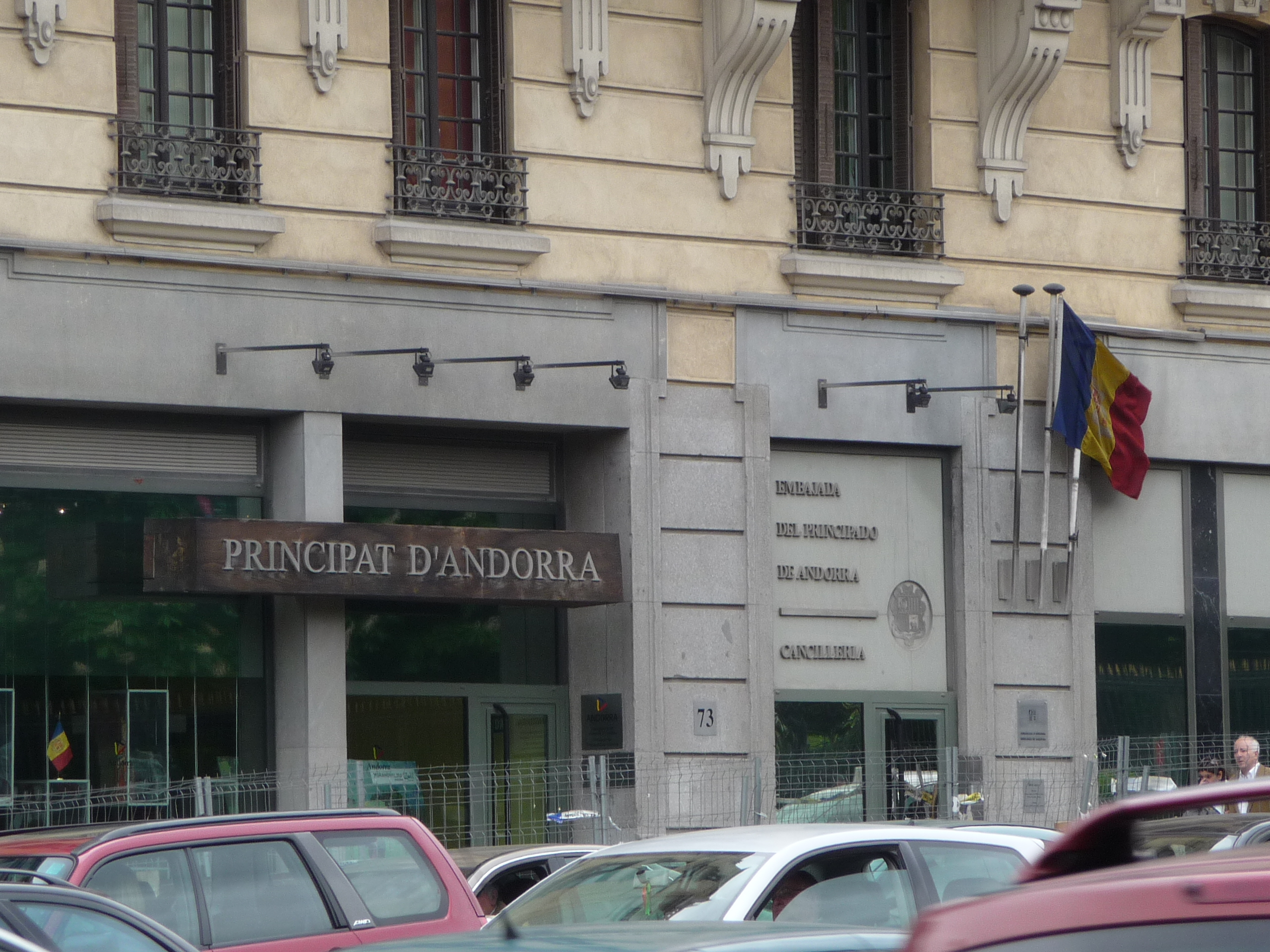 Embassy of Andorra in Madrid